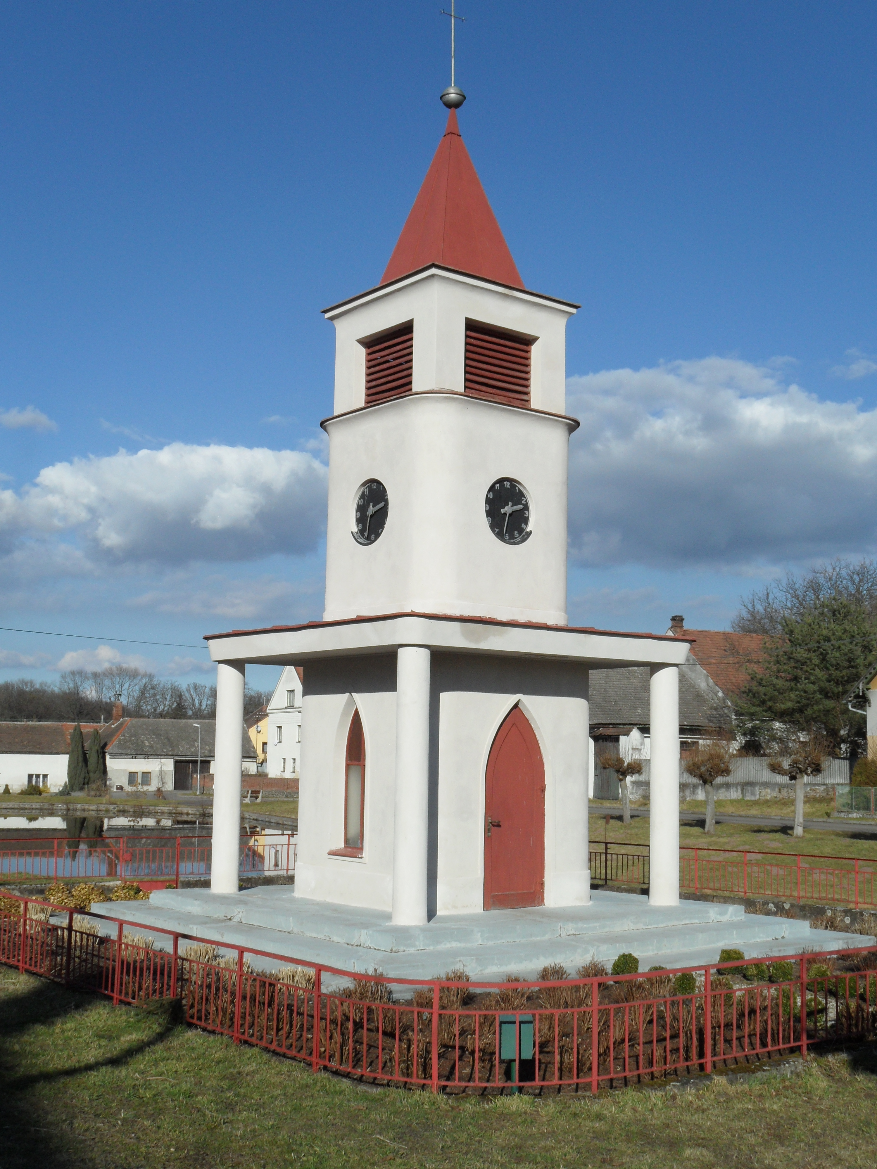 Skryje B. Chaple at Village Square, Havlíčkův Brod District, the Czech Republic.